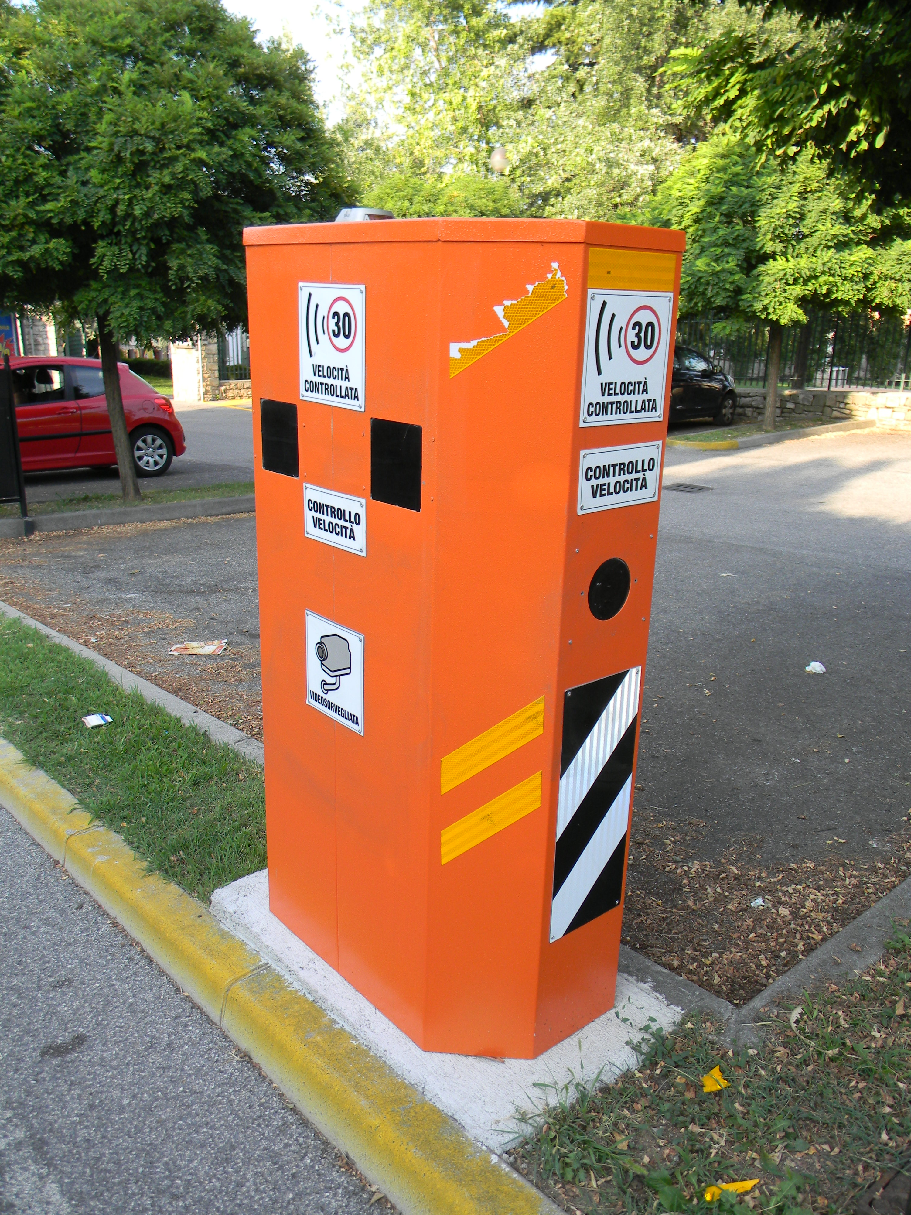 Speed camera in Italy.